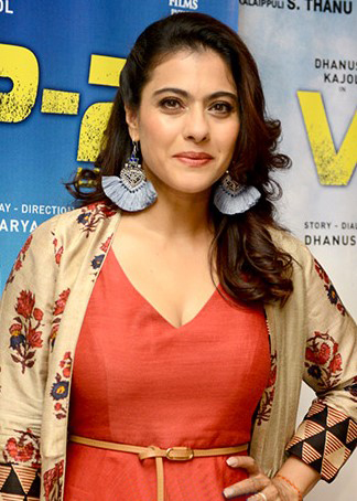 Kajol promotes VIP2 in Delhi.